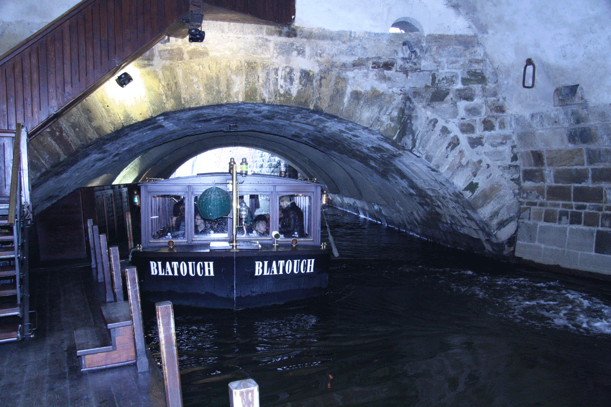 Segment of vanished Judith Bridge, predecessor of Charles Bridge, in Prague, Czech Republic